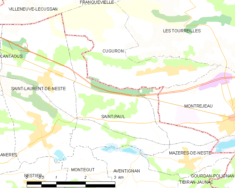 Map of French municipality